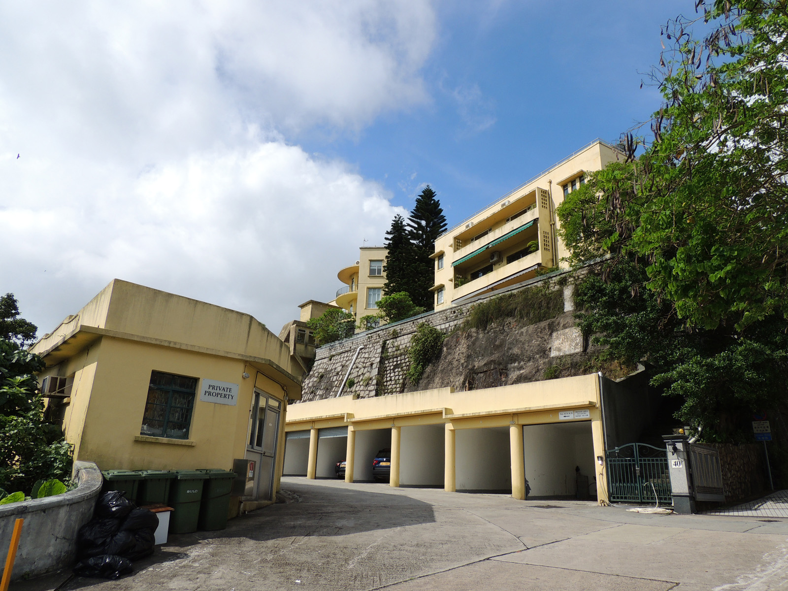 Cameron Mansions, Magazine Gap Road. The base of the buildings was built in 1942 as the base of the Japanese War Memorial (destroyed in 1947).